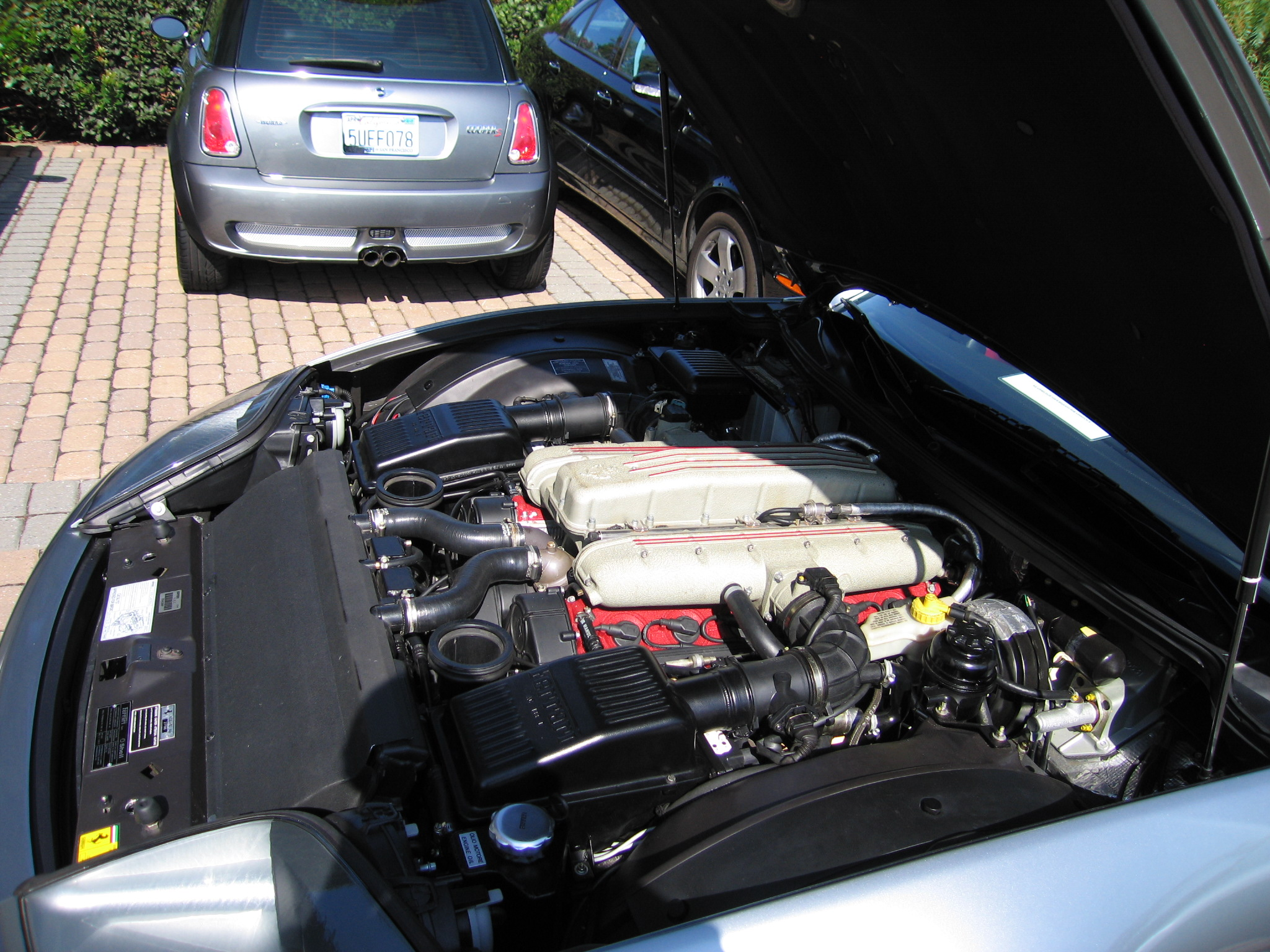 Ferrari 550 Maranello V12 engine.